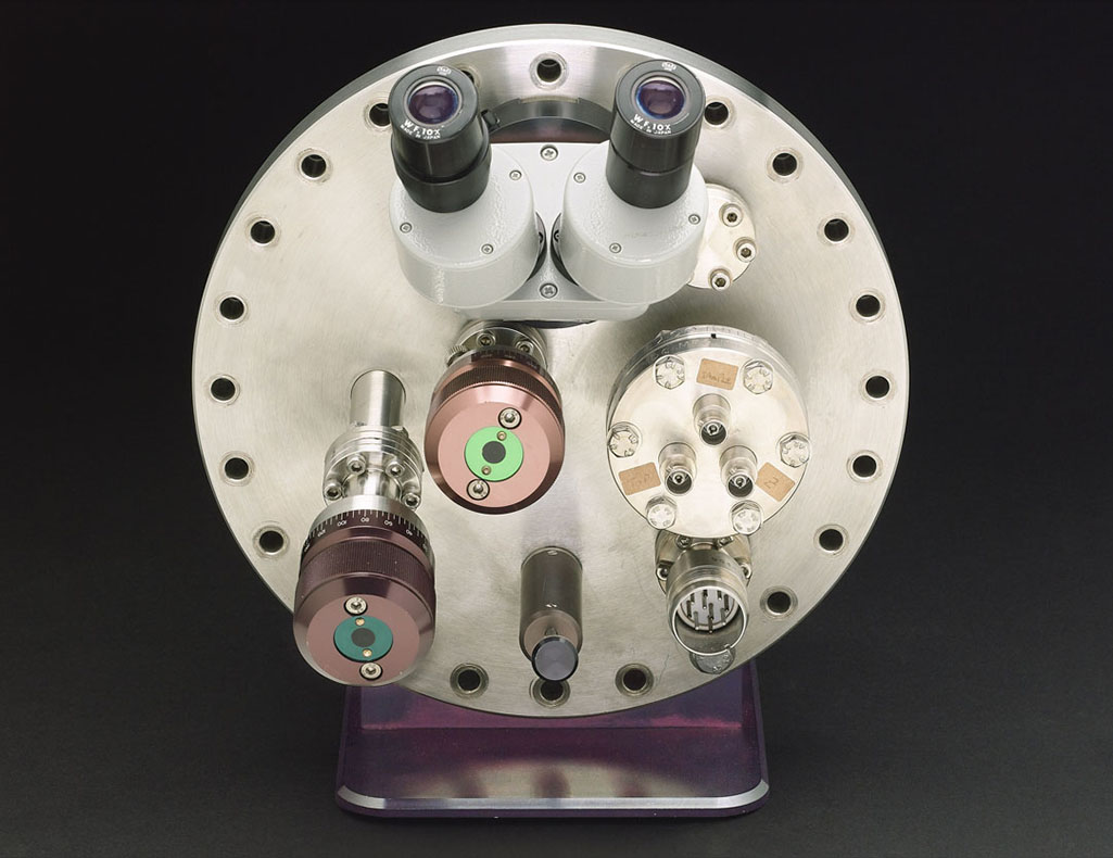 Scanning Tunnelling Microscope made by W.A. Technology of Cambridge in 1986. This is the first STM to be produced commercially. Front view. Black background.